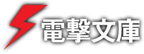 Dengeki Bunko Logo.